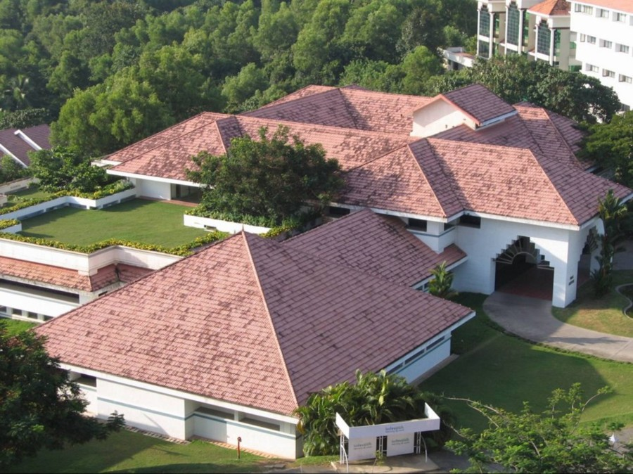 Kerala Technopark Center, Image taken by self.